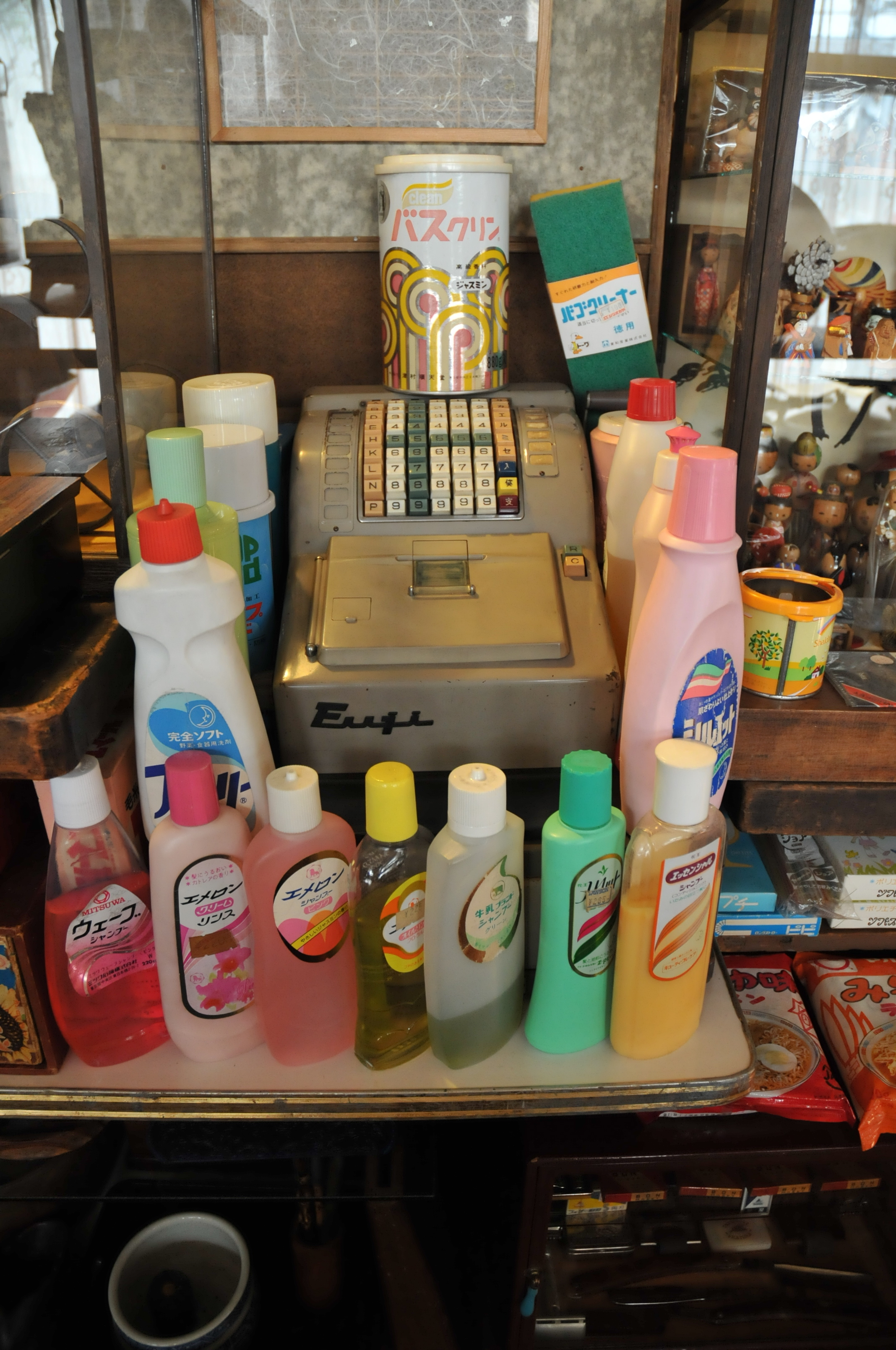 レトロスペース坂会館 北海道札幌市西区二十四軒3条7丁目（Nijuyonken3jo-7chome Nishi ward Sapporo city Hokkaido） バスクリン & Shampoo Bottles (エメロン, メリット and others).